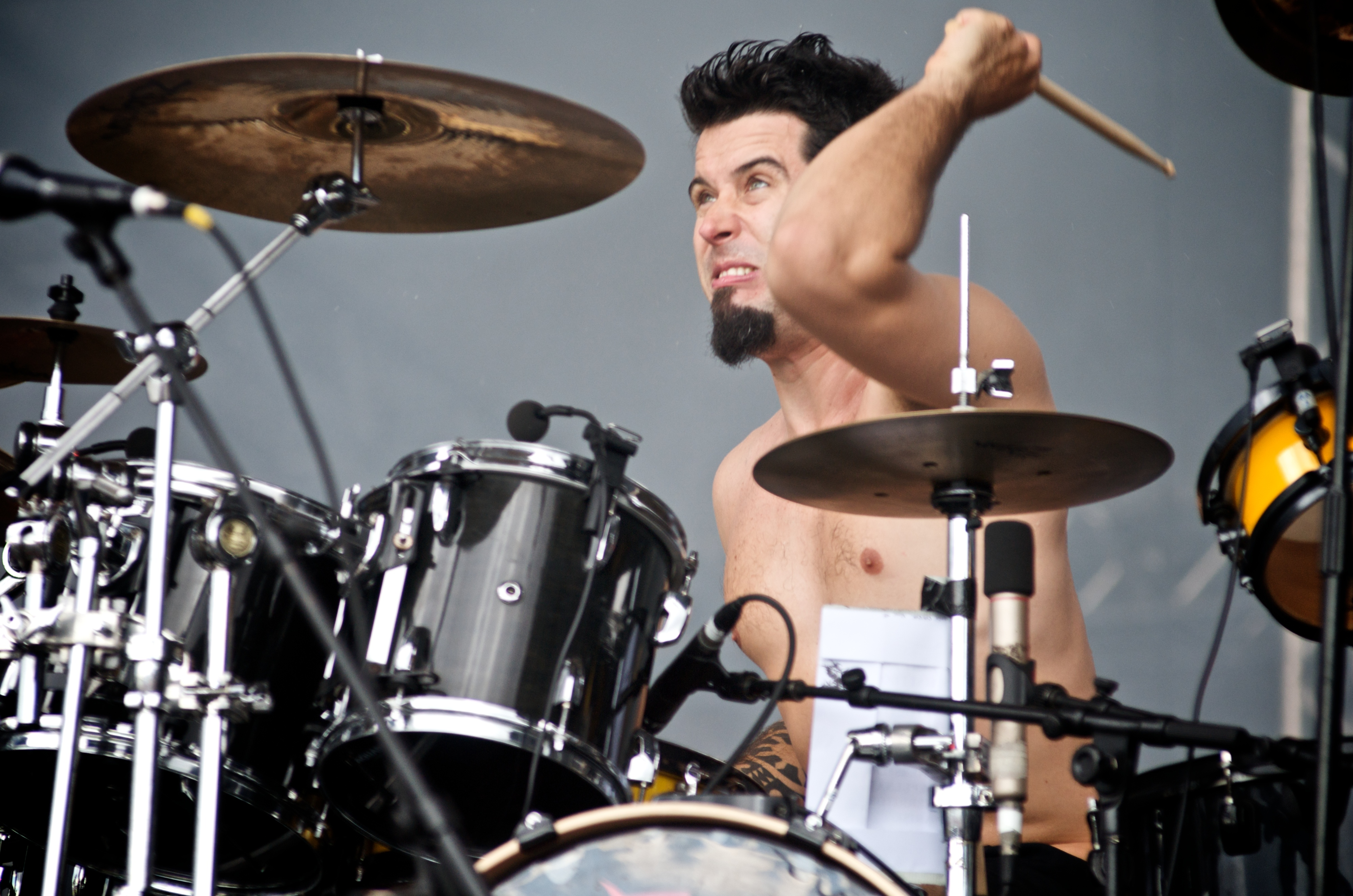 Sepultura in Maquinária Festival, occurred in November 7 2009 at São Paulo, Brazil.